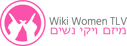 Wiki Women Collective, Tel Aviv. Logo.